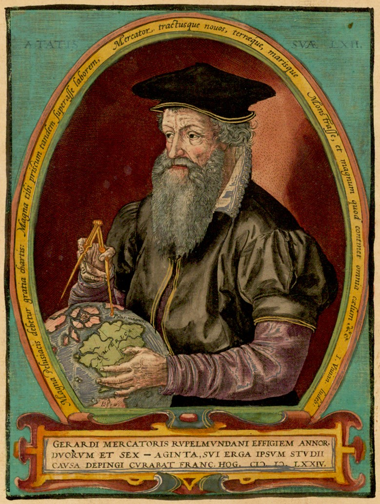 Portrait of Gerardo Mercator